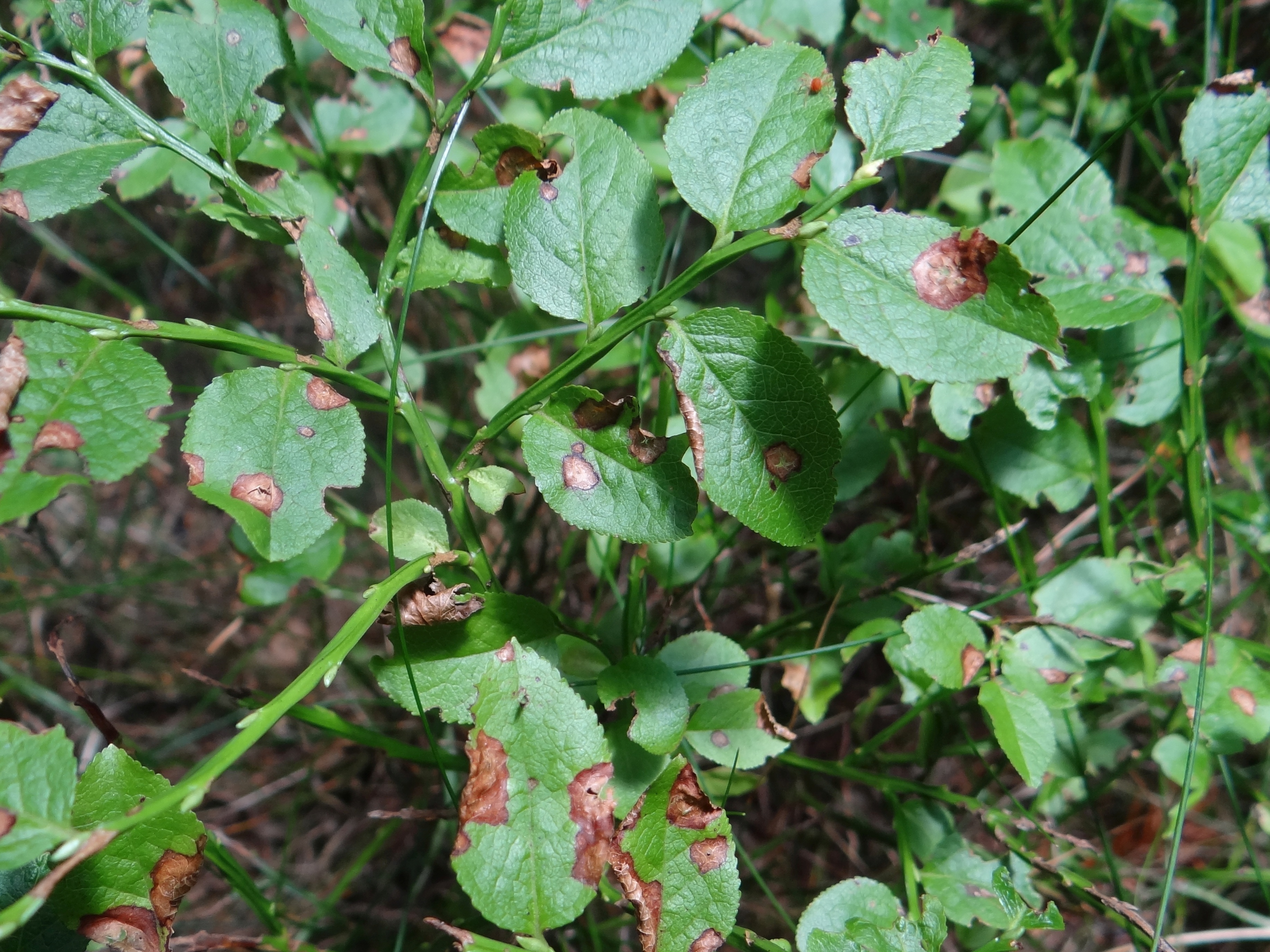 Valdensinia heterodoxa on Vaccinium myrtillus. Location: Poland, Beskid Wyspowy, Łopień